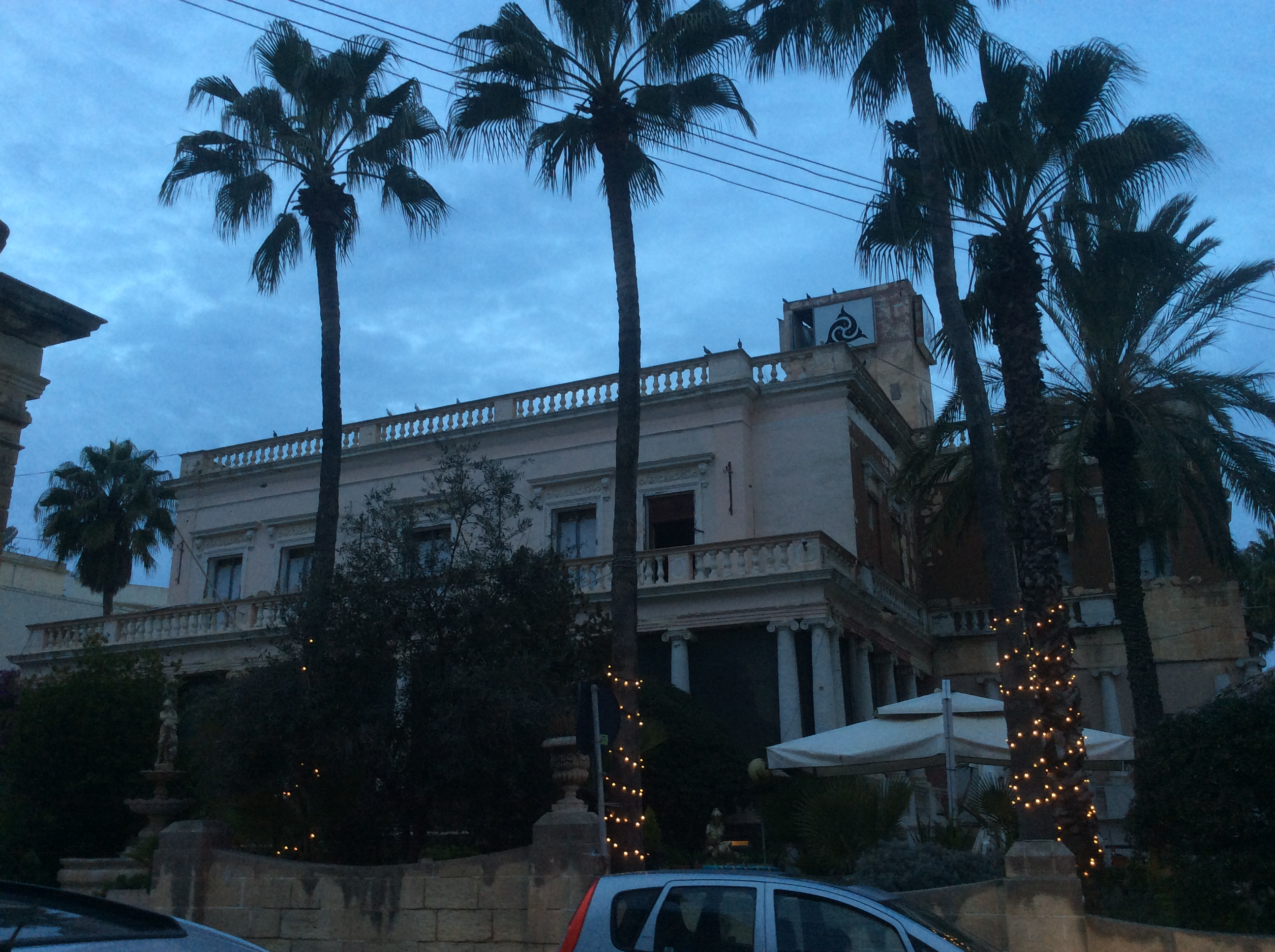 Palazzo Pescatore front garden